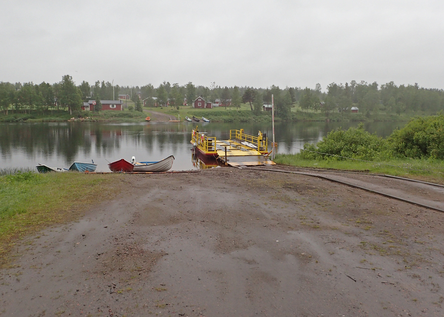 Car ferry across river Lainioälven in Lannavaara, Kiruna Municipality, northern Sweden.